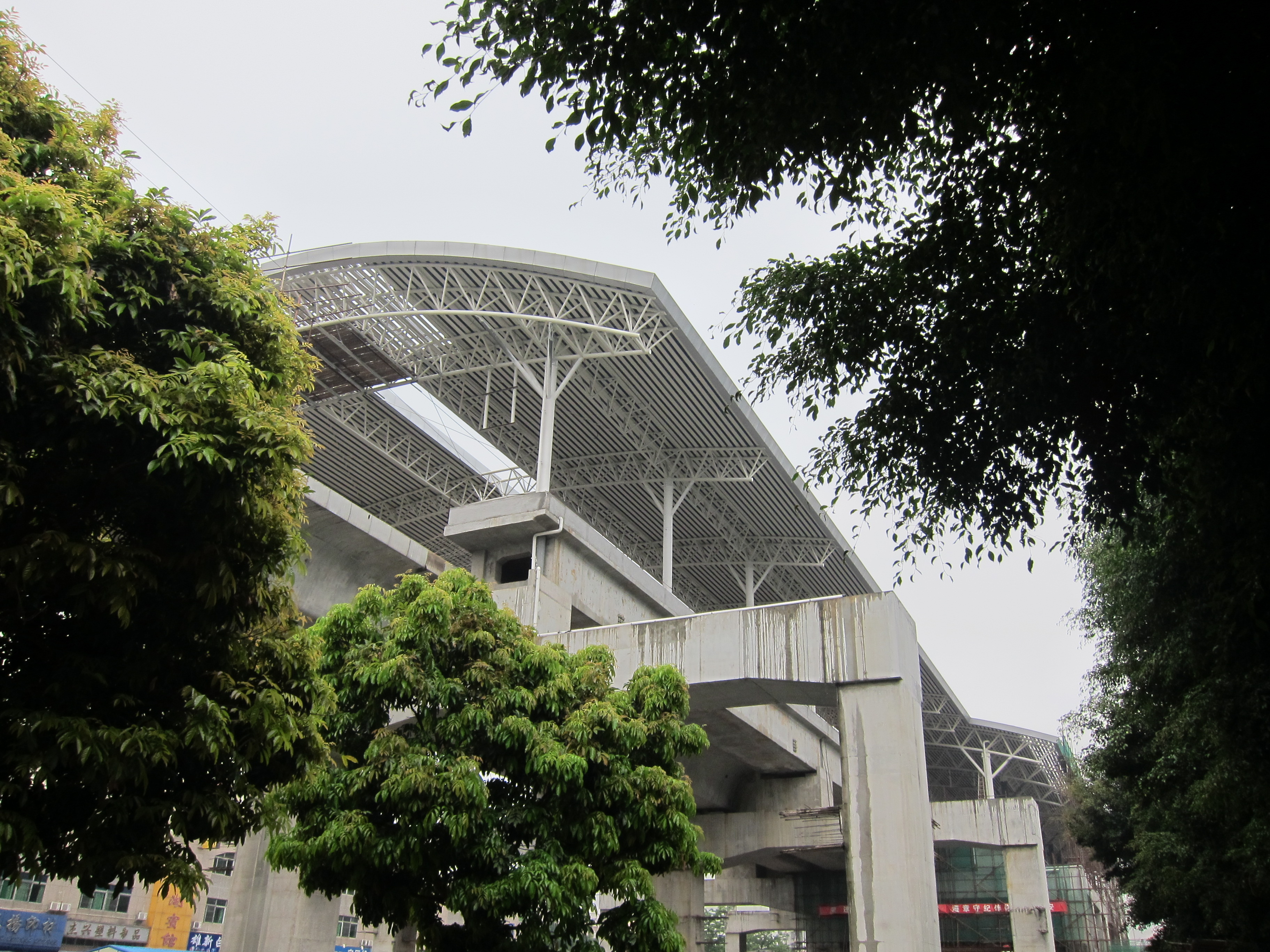 North side of Mingzhu Station.